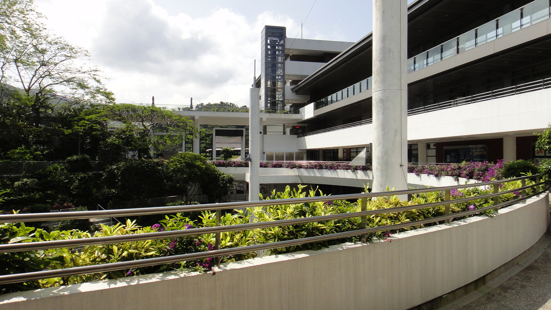 Inside of the Hong Kong International School